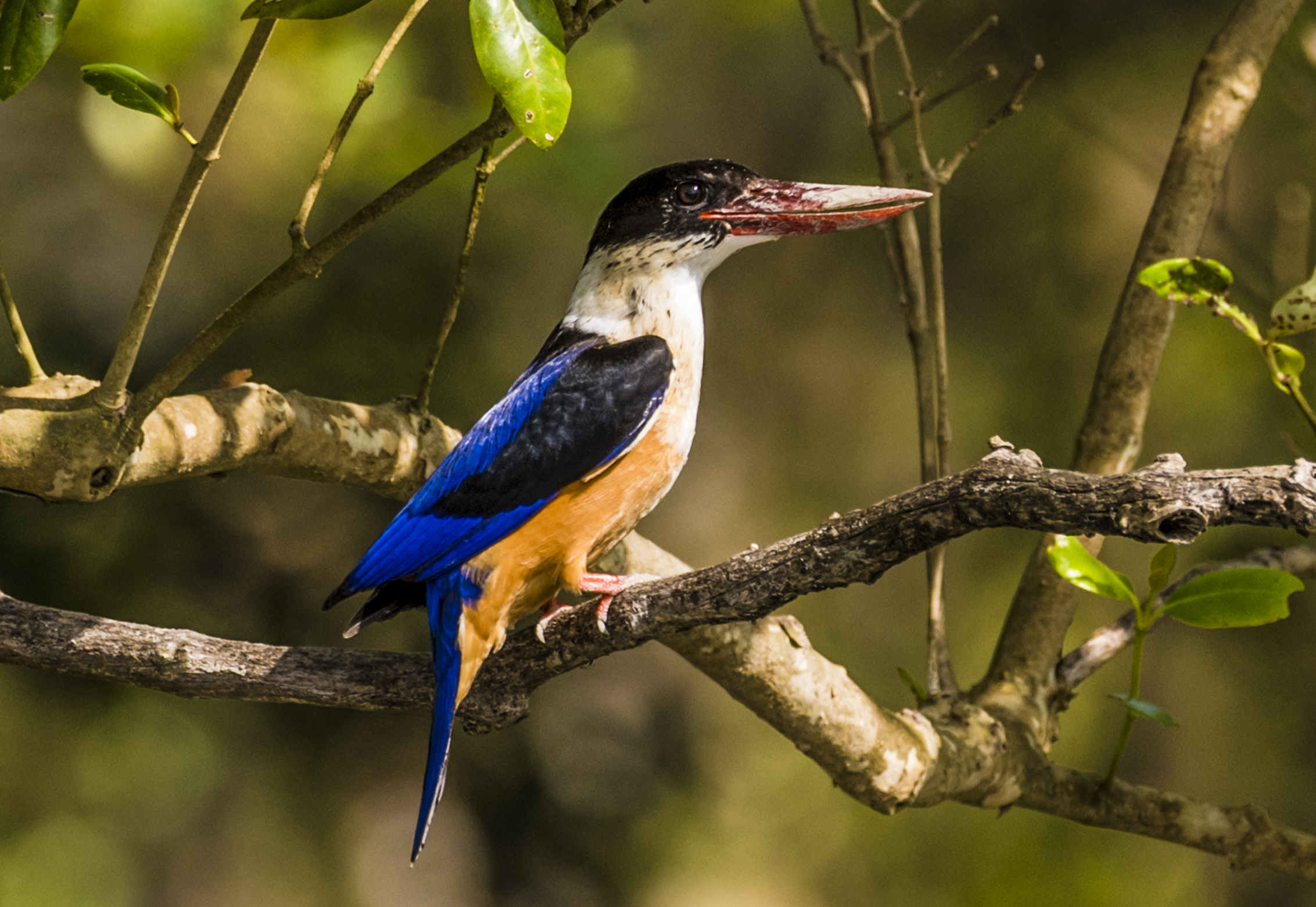 Black Capped Kingfisher in Sundarbans 01